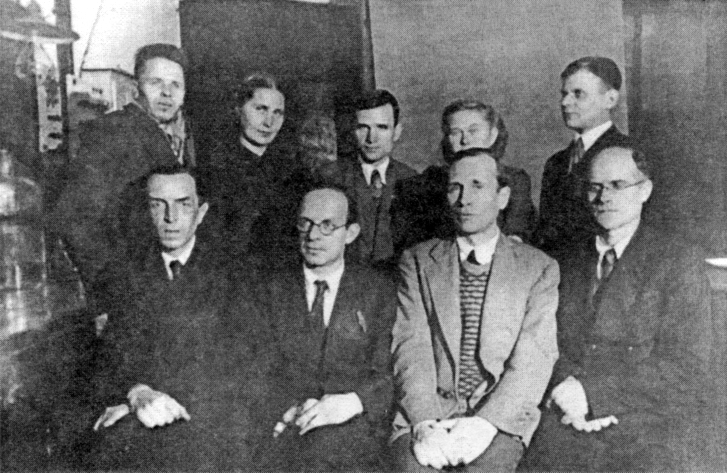 Group ща chemists from branch of Leningrad State University. Elabuga. 1942